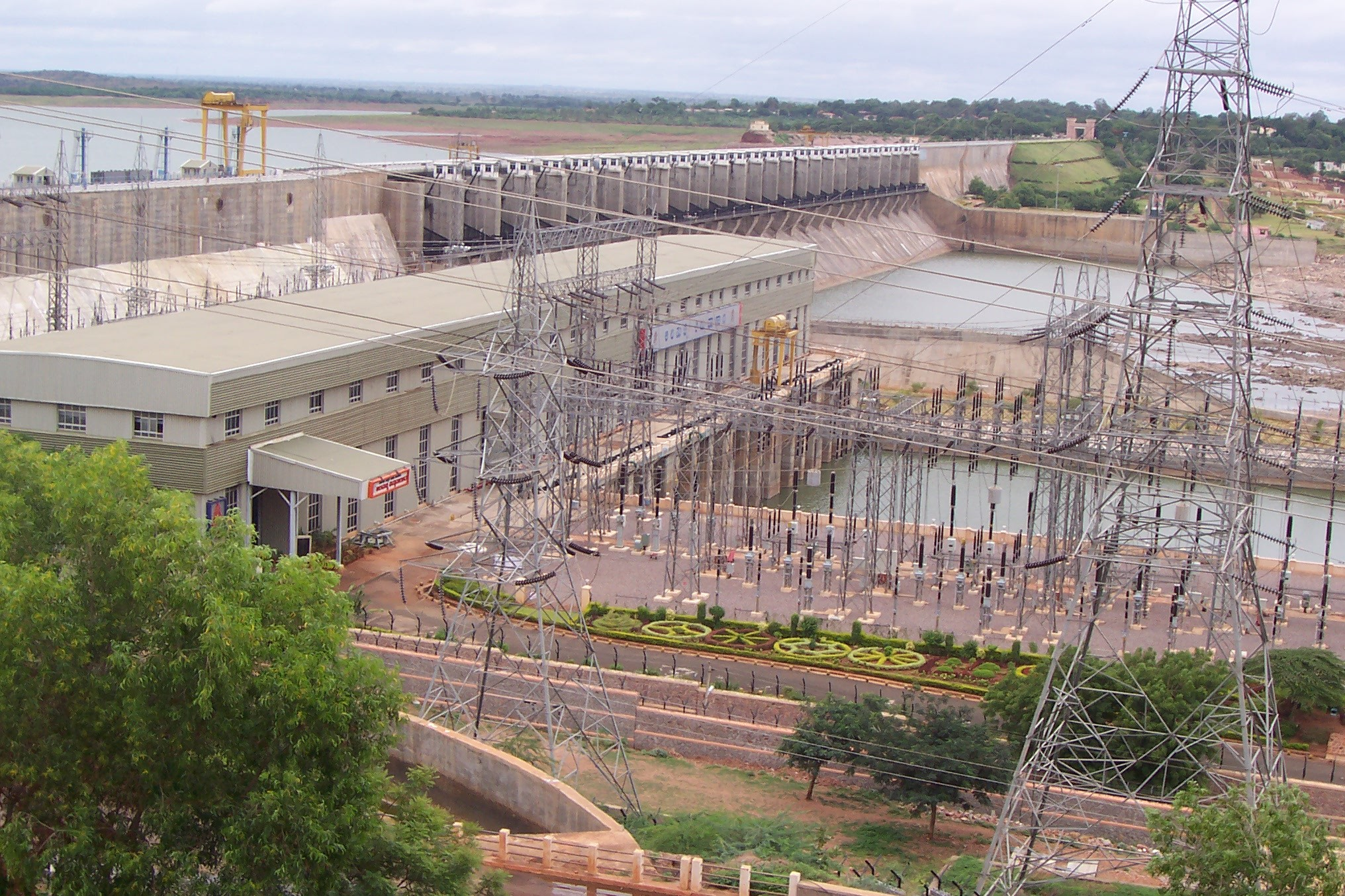 Alamatti Powerhouse on right bank of the dam